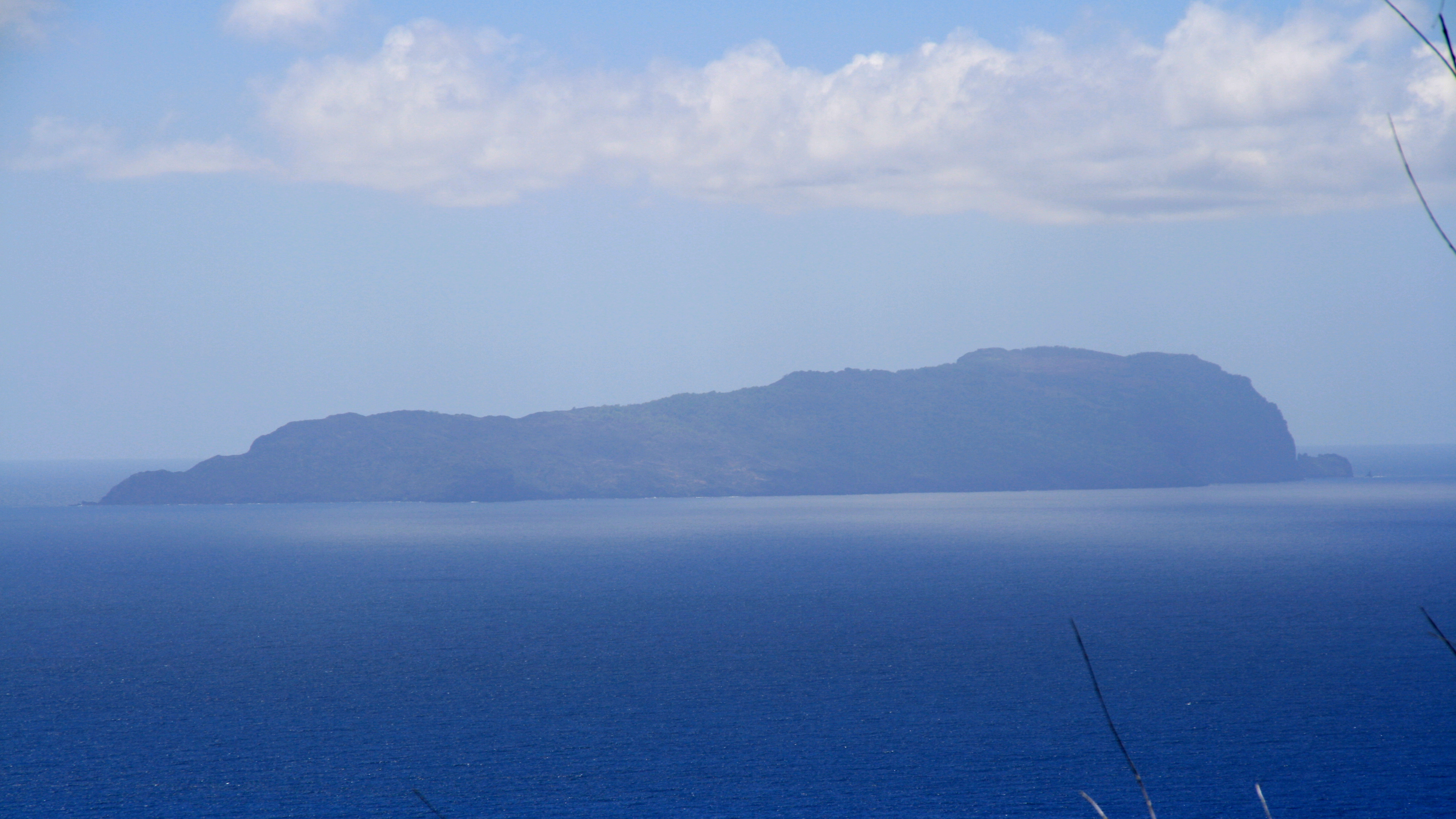 Moho Tani island (also called Molopu), viewed from Hiva-Oa, Marquesas Island, French Polynesia.